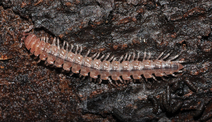 Polydesmus helveticus (Polydesmida, Polydesmidae), a millipede from southern Germany. Source: Spelda, J., H.S. Reip, U. Oliveira–Biener, R.R. Melzer. Barcoding Fauna Bavarica: Myriapoda – a contribution to DNA sequence-based identifications of centipedes and millipedes (Chilopoda, Diplopoda) 2011 ZooKeys 156: 123–139